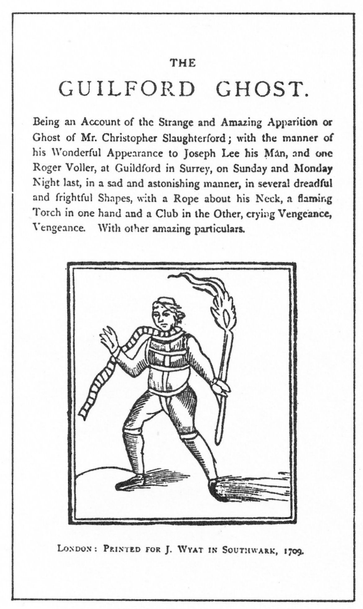 Cover of a 1709 pamphlet describing alleged sightings of the ghost of Christopher Slaughterford, with accompanying illustration.